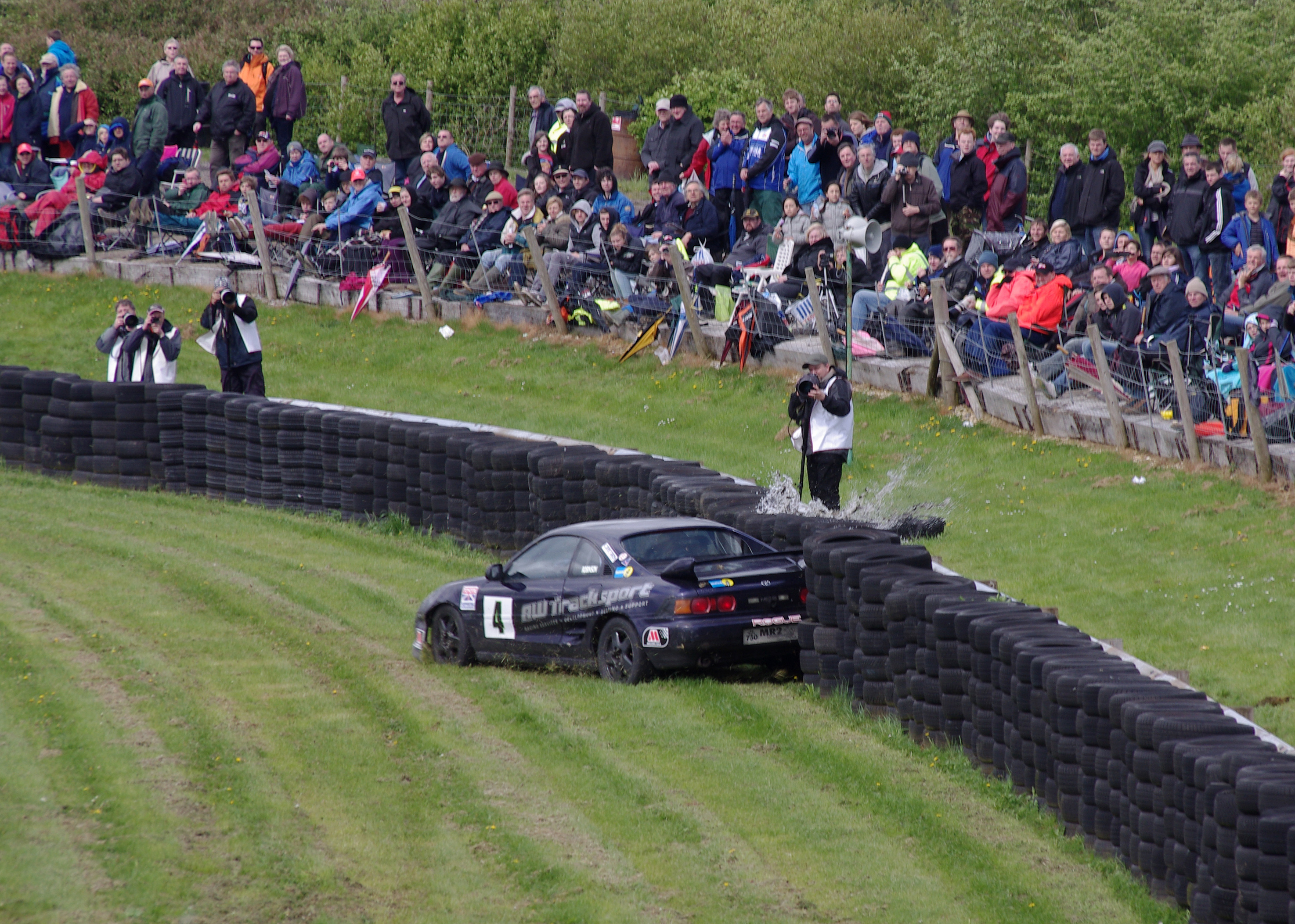 750MC Toyota MR2 Championship at Castle Combe's Motors TV race day, 7th May 2012.